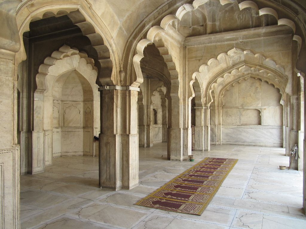 Moti Masjid interier